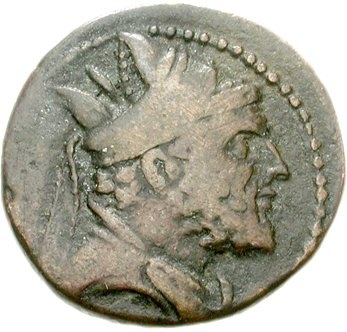 Coin of Abdissares (210 BC), Armenian King of Sophene (source: Ancient Coin Collecting VI: Non-Classical Cultures p. 29)